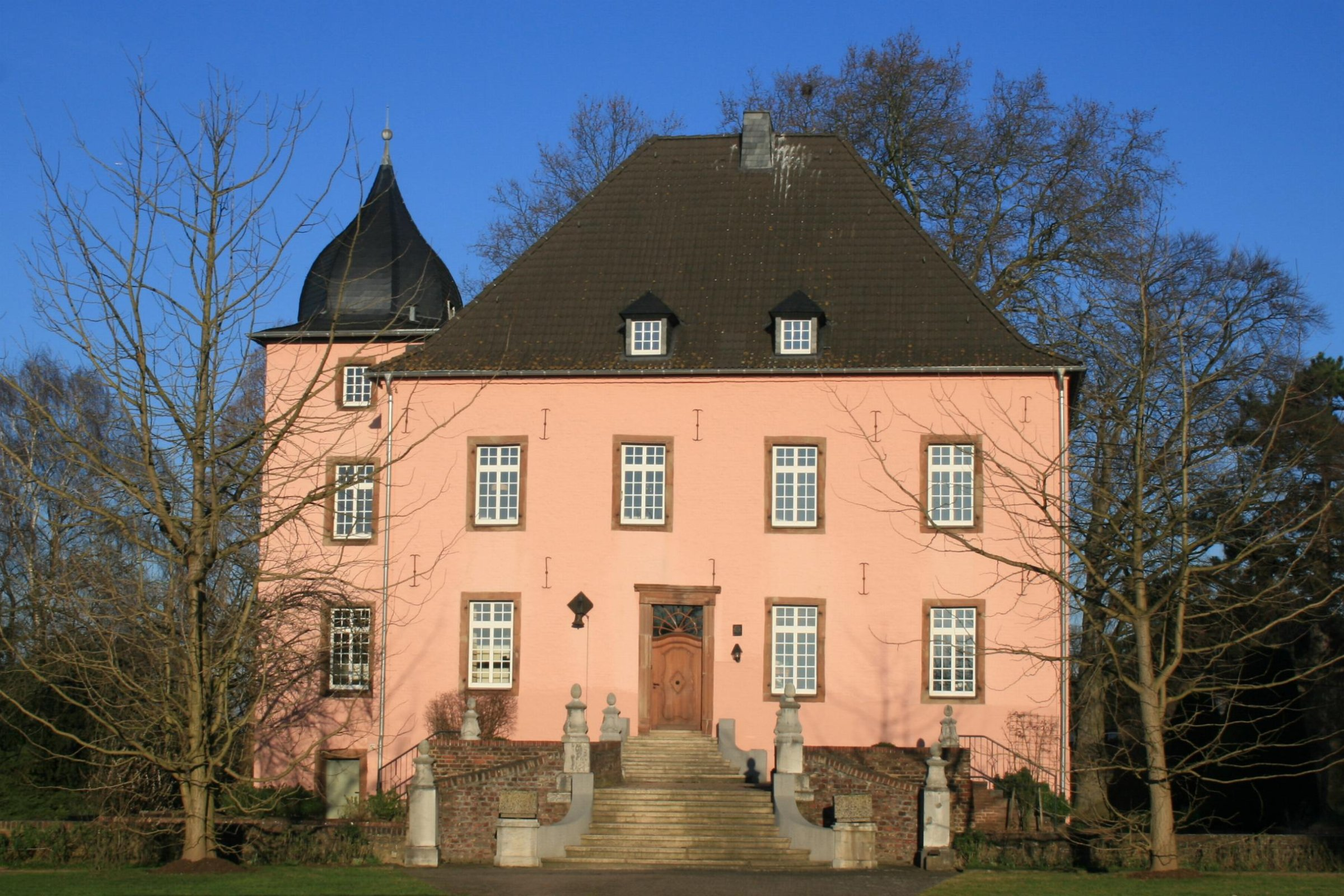 Cultural heritage monument No. 22 in Jülich